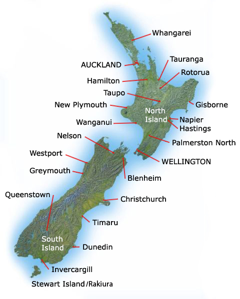 Replace existing file of same name. Slightly amended to fully name Stewart Island/Rakiura Derivative work of File:New Zealand towns and cities.jpg.